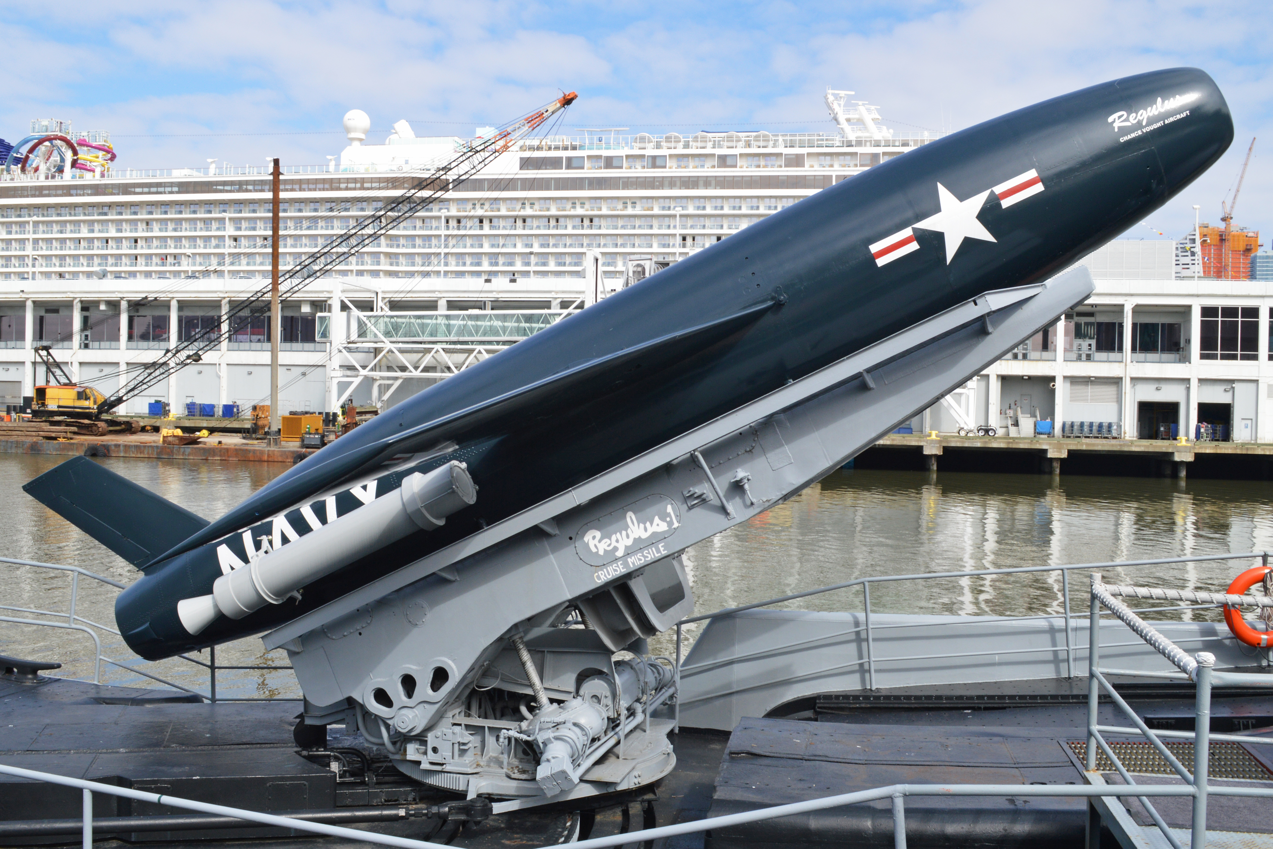 The Regulus was one of the first operational cruise missiles and was operational from 1955 to 1964. Jet powered and nuclear armed, it was launched from either ships or submarines. It is appropriately displayed on the submarine USS Growler, as part of the Intrepid Sea, Air & Space Museum, Pier 86, New York Harbor, NY. 6th March 2016.